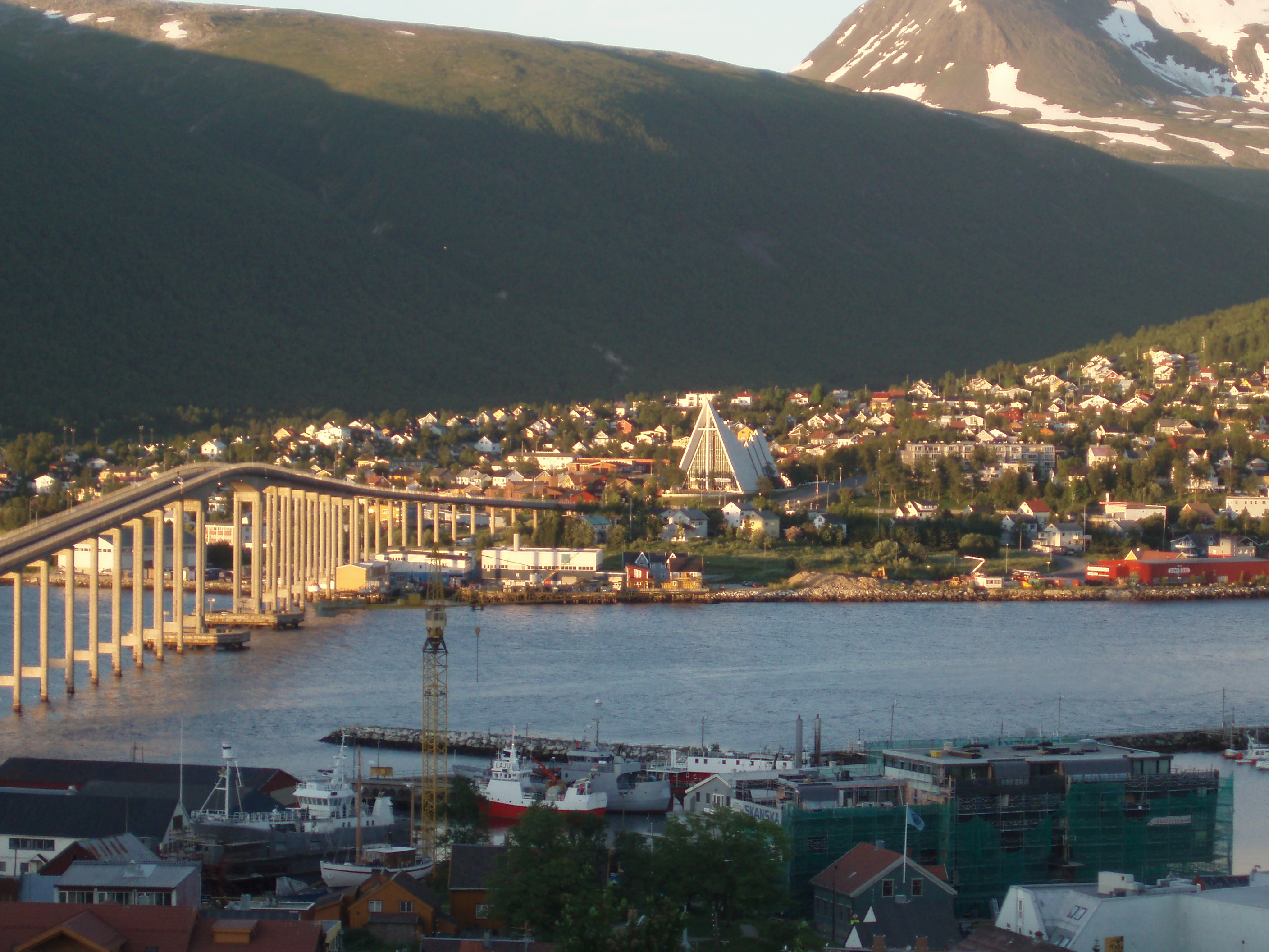 Tromsø and the cathedral in midnight sun